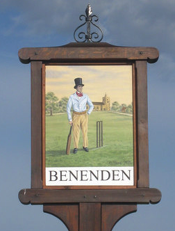 A cropped of version of the Benenden village sign showing professional cricketer Richard Mills who took part in a famous match with New Wenman in 1836.